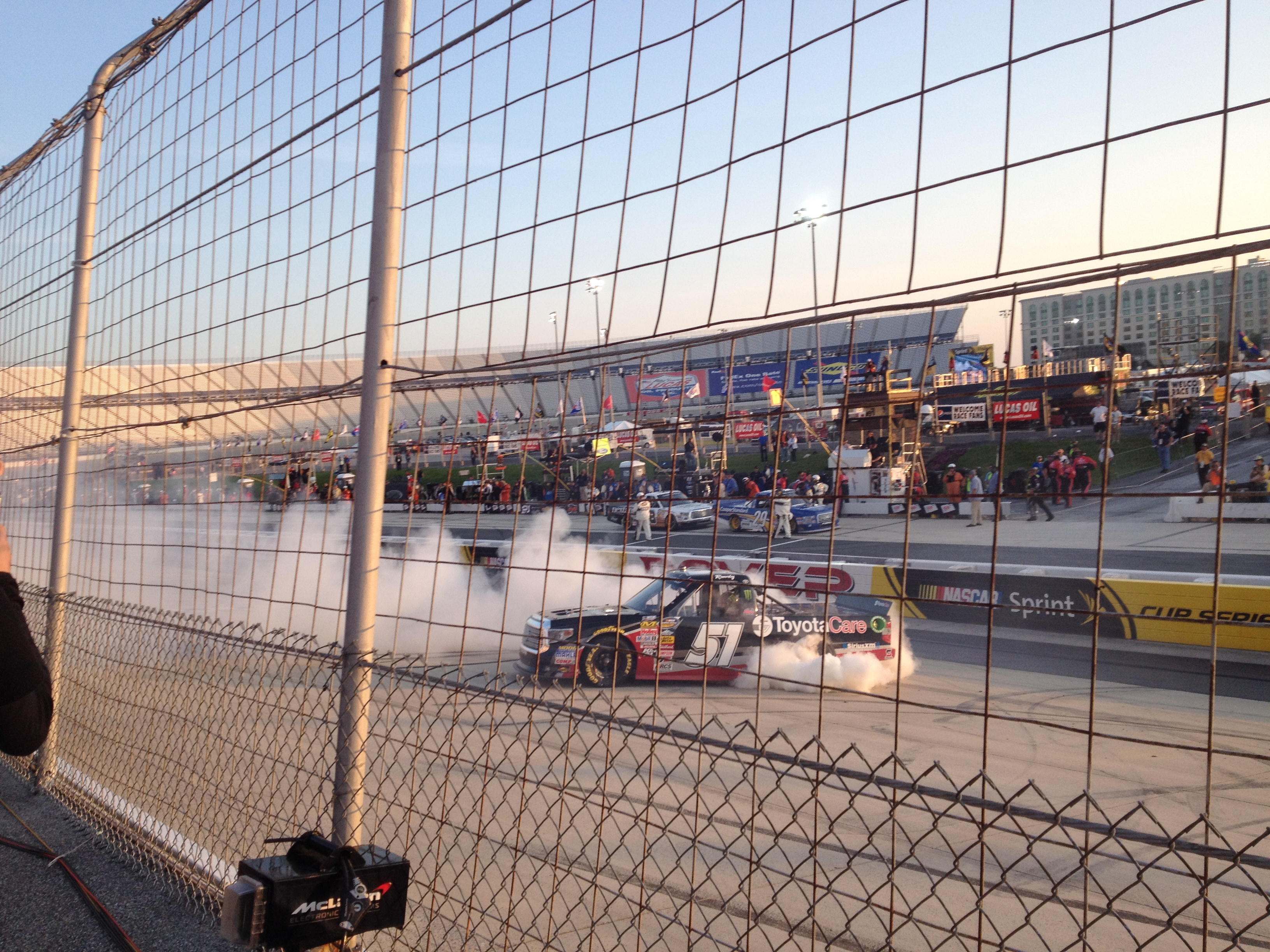 Kyle Busch (#51) does a burnout after winning the Lucas Oil 200 at Dover International Speedway on May 30, 2014.